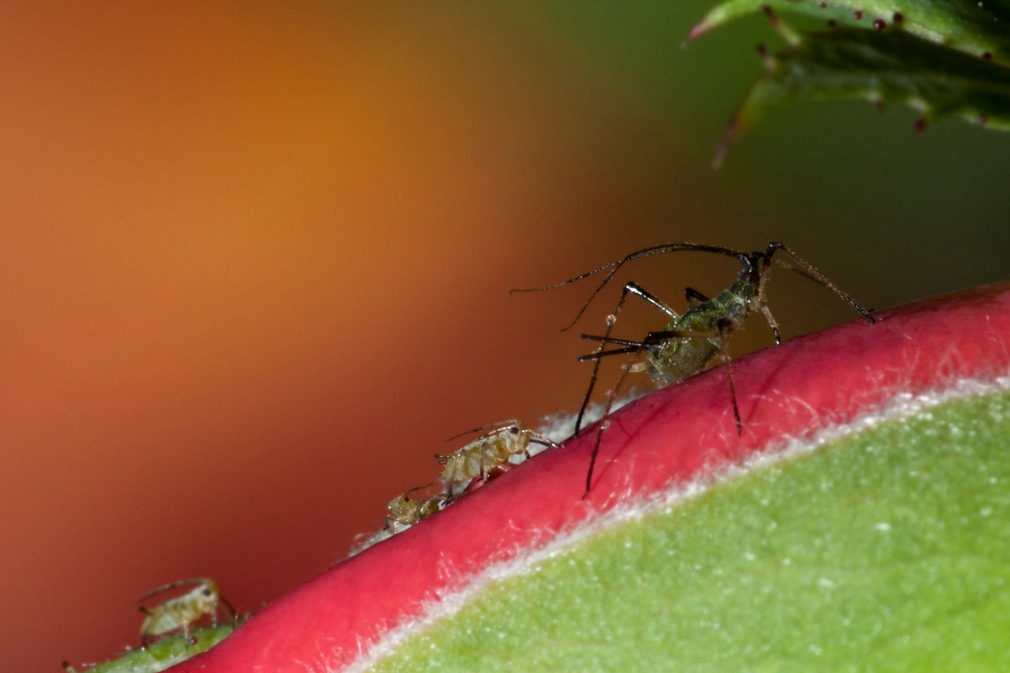 Leaf lice in different life stages